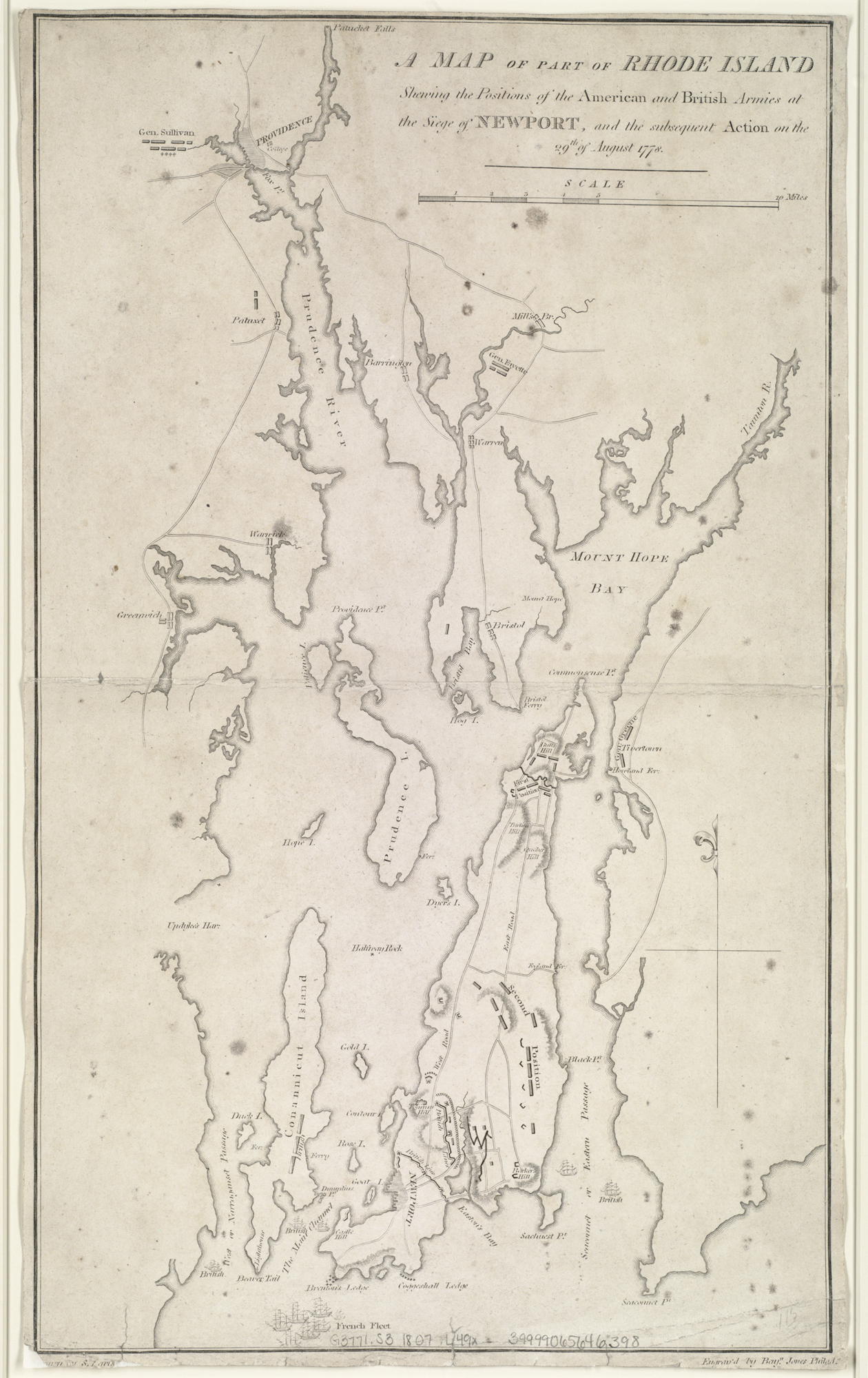 Zoom into this map at . Author: Lewis, Samuel Publisher: Wayne, Caleb Parry Date: 1807 Location: Newport (R.I.), Rhode Island Dimension: 42 x 25 cm. Scale: ca. 1:140,000 Call Number: G3771.S3 1807 .L49x